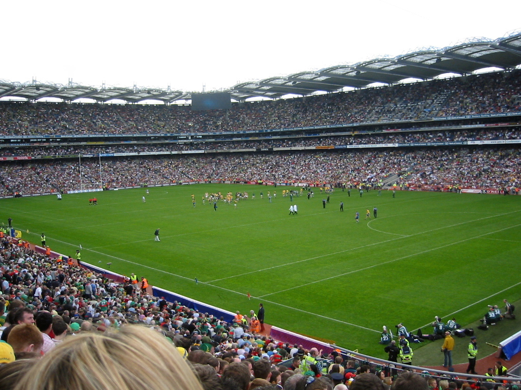 Croke Park sports stadium in Dublin, Ireland. The pitch is used for Gaelic football, hurling, and camogie, and has also been used in the past for association football and rugby. It has a capacity of 82,300 people, making it the fourth largest stadium in Europe.